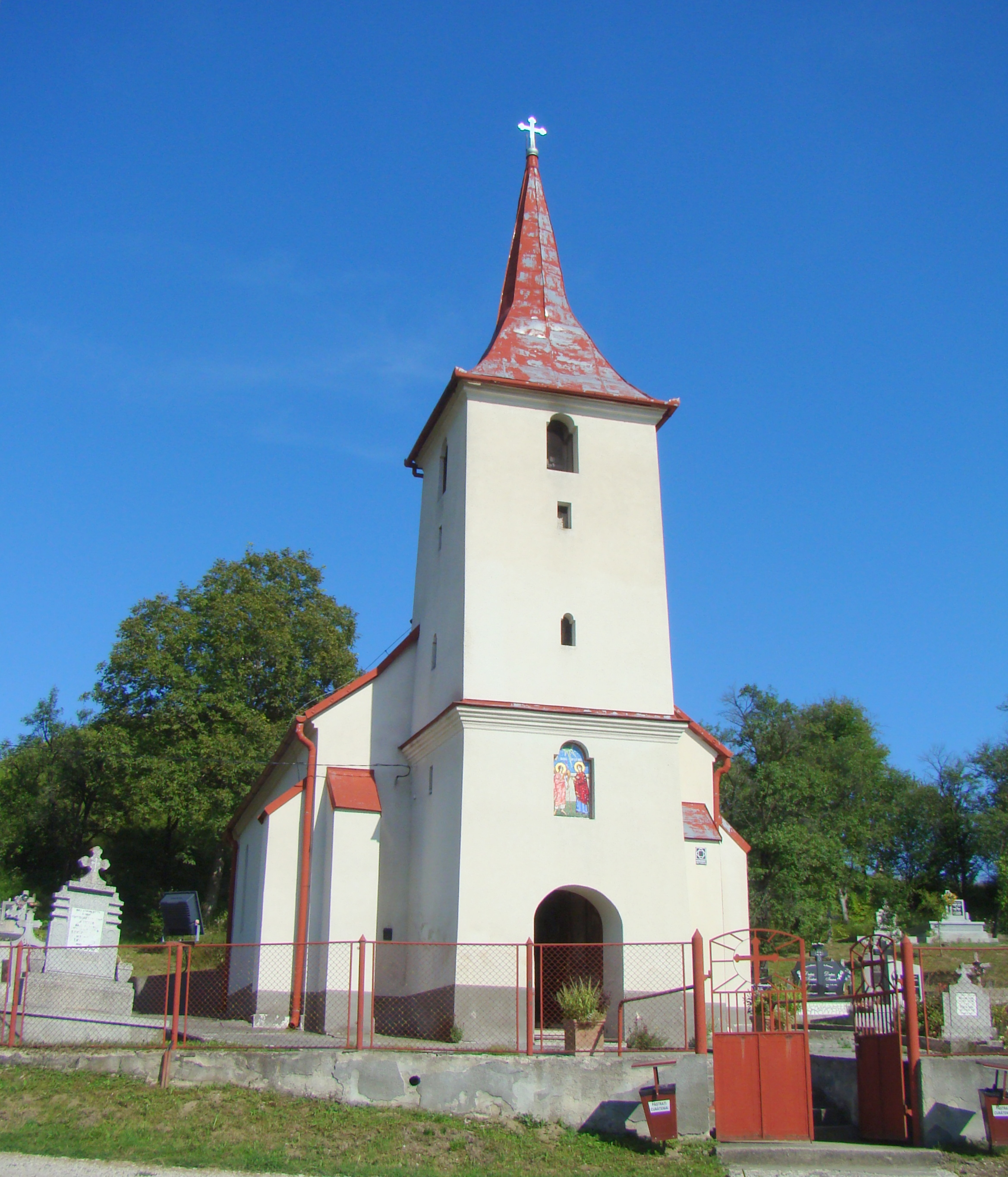 Church of the Annunciation in Hetiur, Mureș County, Romania